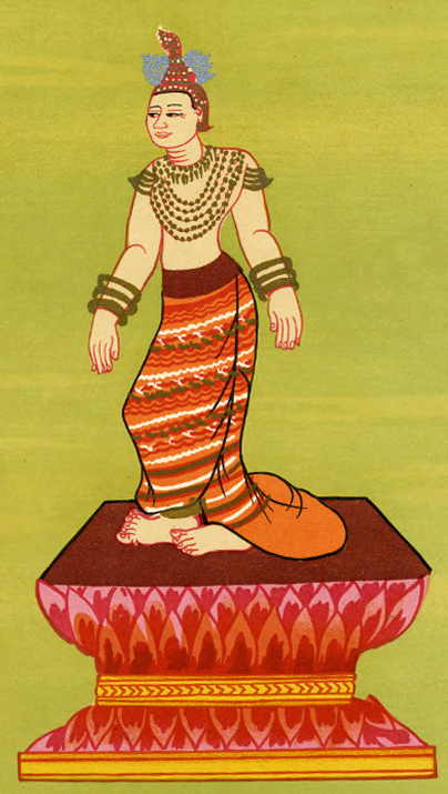 Shin Nemi nat (spirit), 37th of the official pantheon of Burmese natsမြန်မာဘာသာ: ရှင်နှဲမိ နတ်